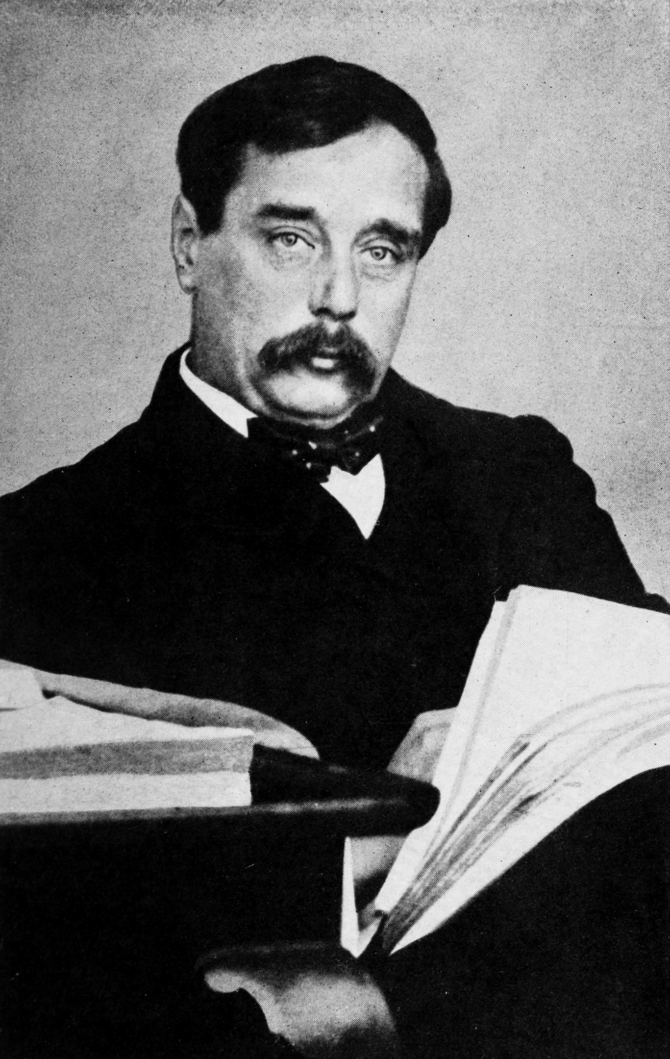 Portrait photo of English writer Herbert George Wells (1866-1946).